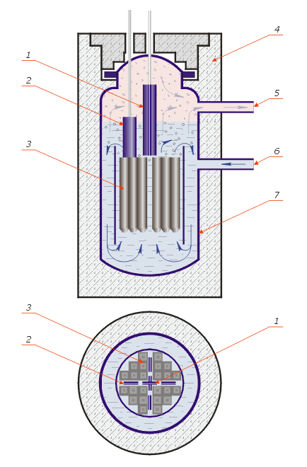 Boiling water nuclear reactor. See key below.